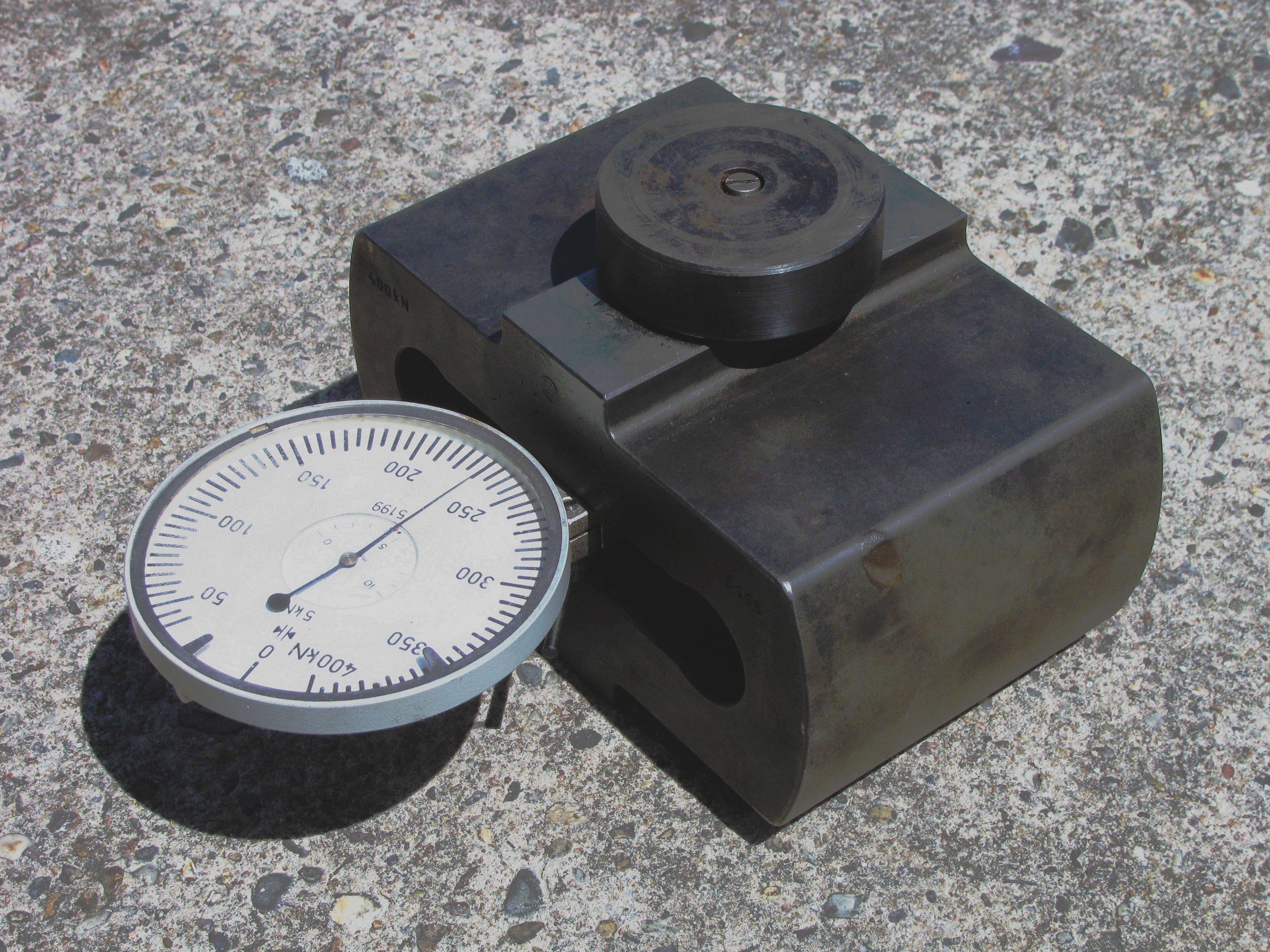 400kN dynamometer Česky: Siloměr 400kN